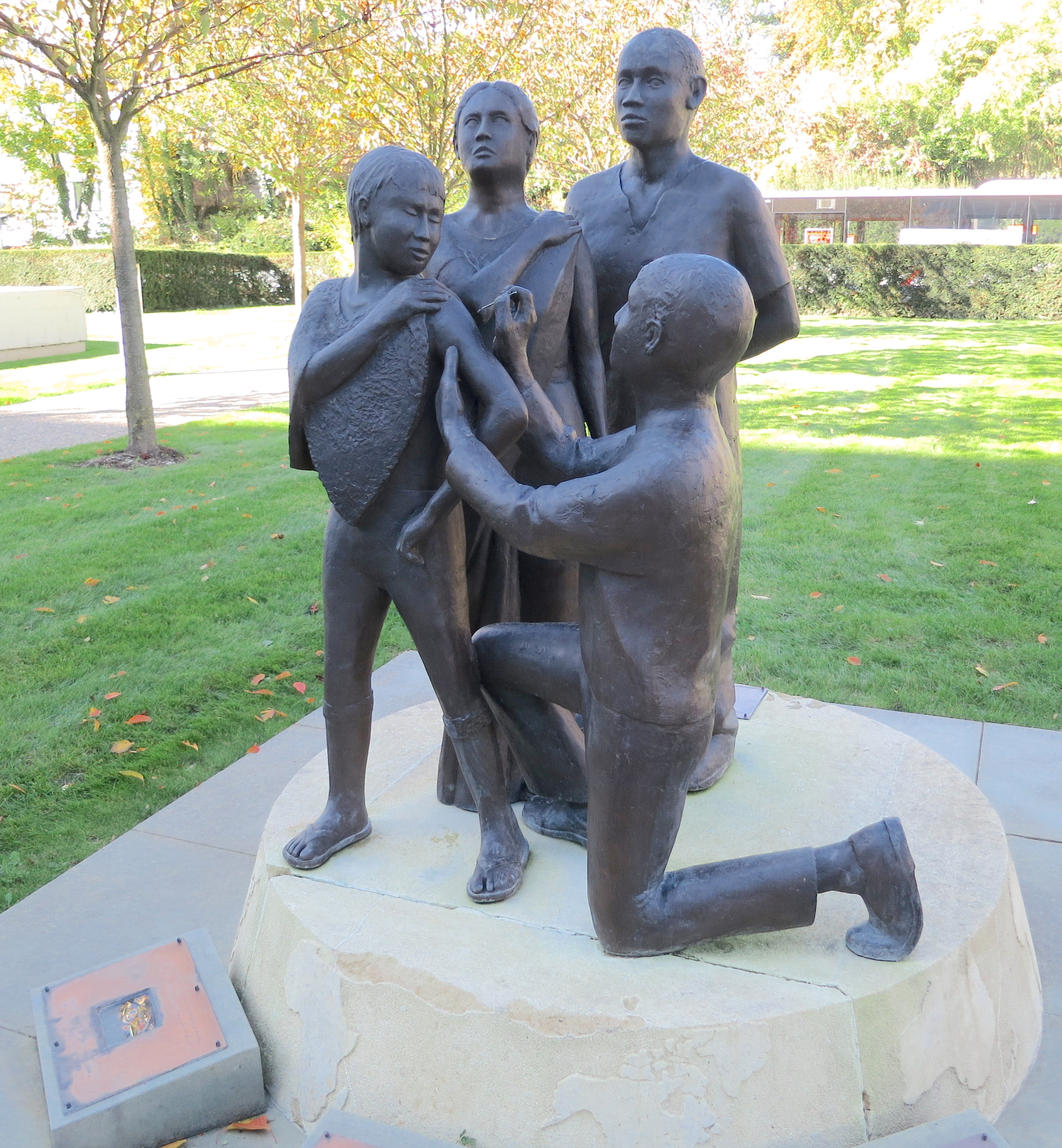 Smallpox vaccination, statue outside the WHO HQ entrance Geneva